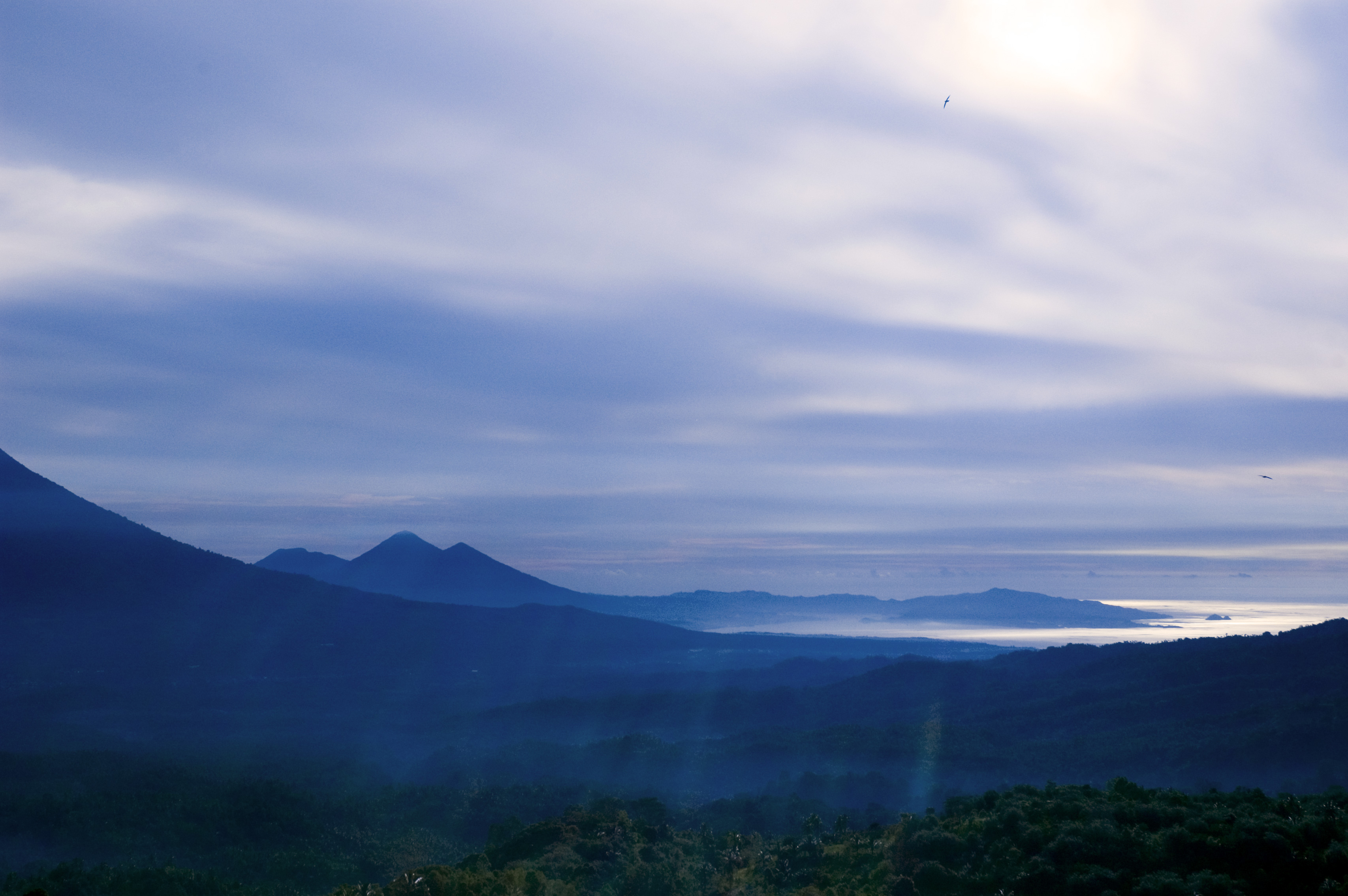 View of Tondano Lake from Rurukan, North Sulawesi